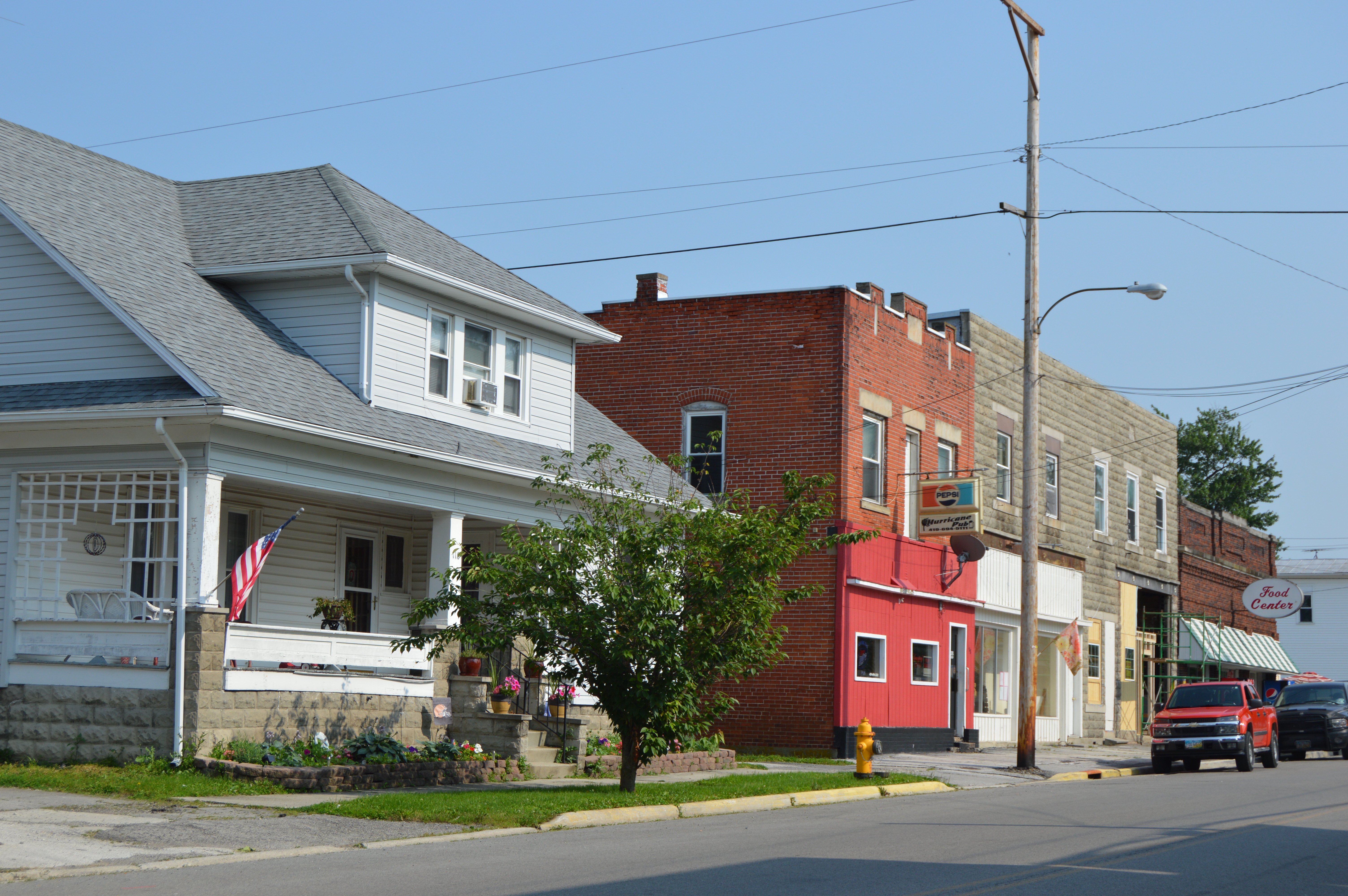 Commercial buildings and a house on the eastern side of the 100 block of N. Main Street (State Route 37) in Mount Blanchard, Ohio, United States.